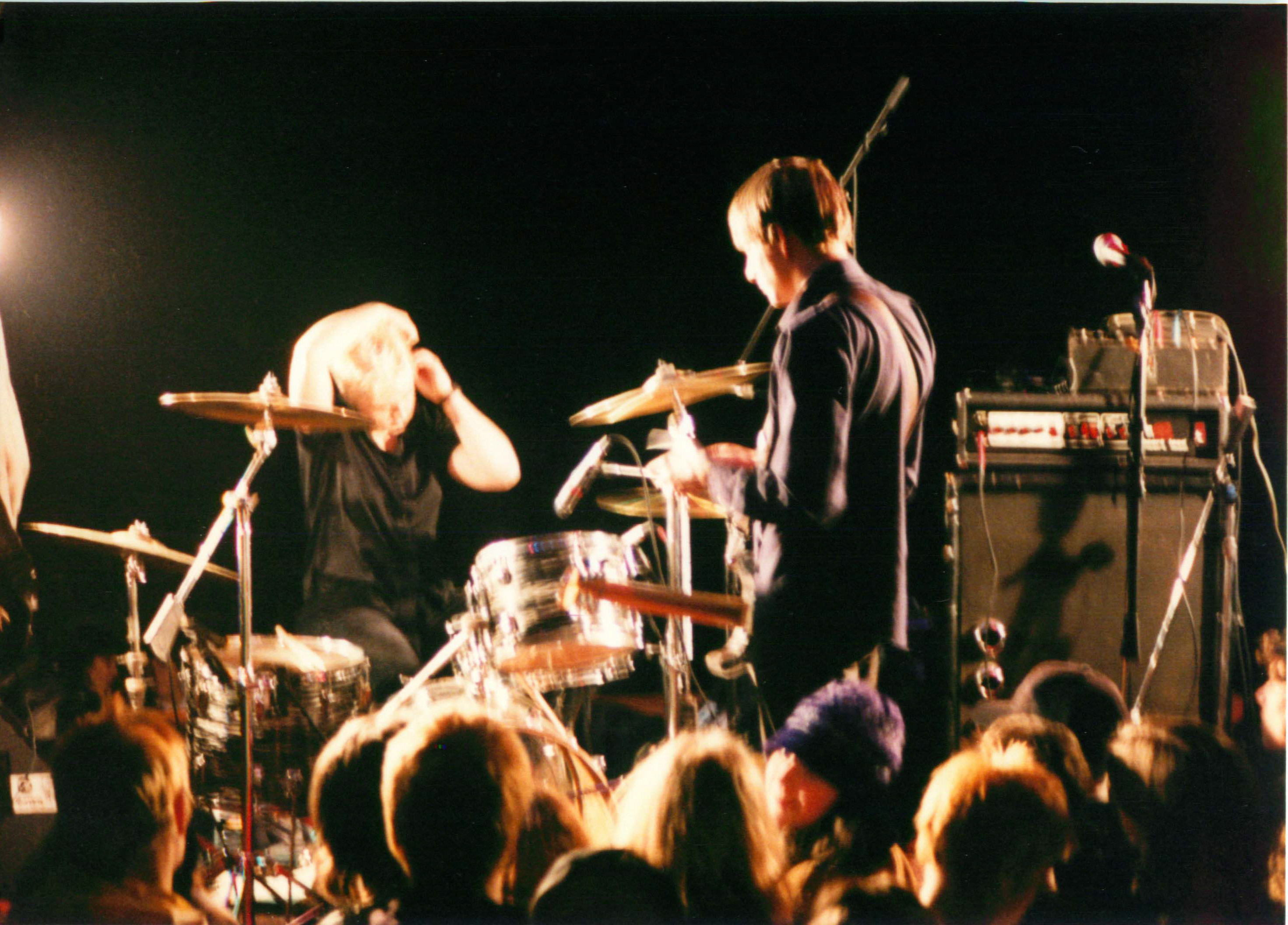 Unwound